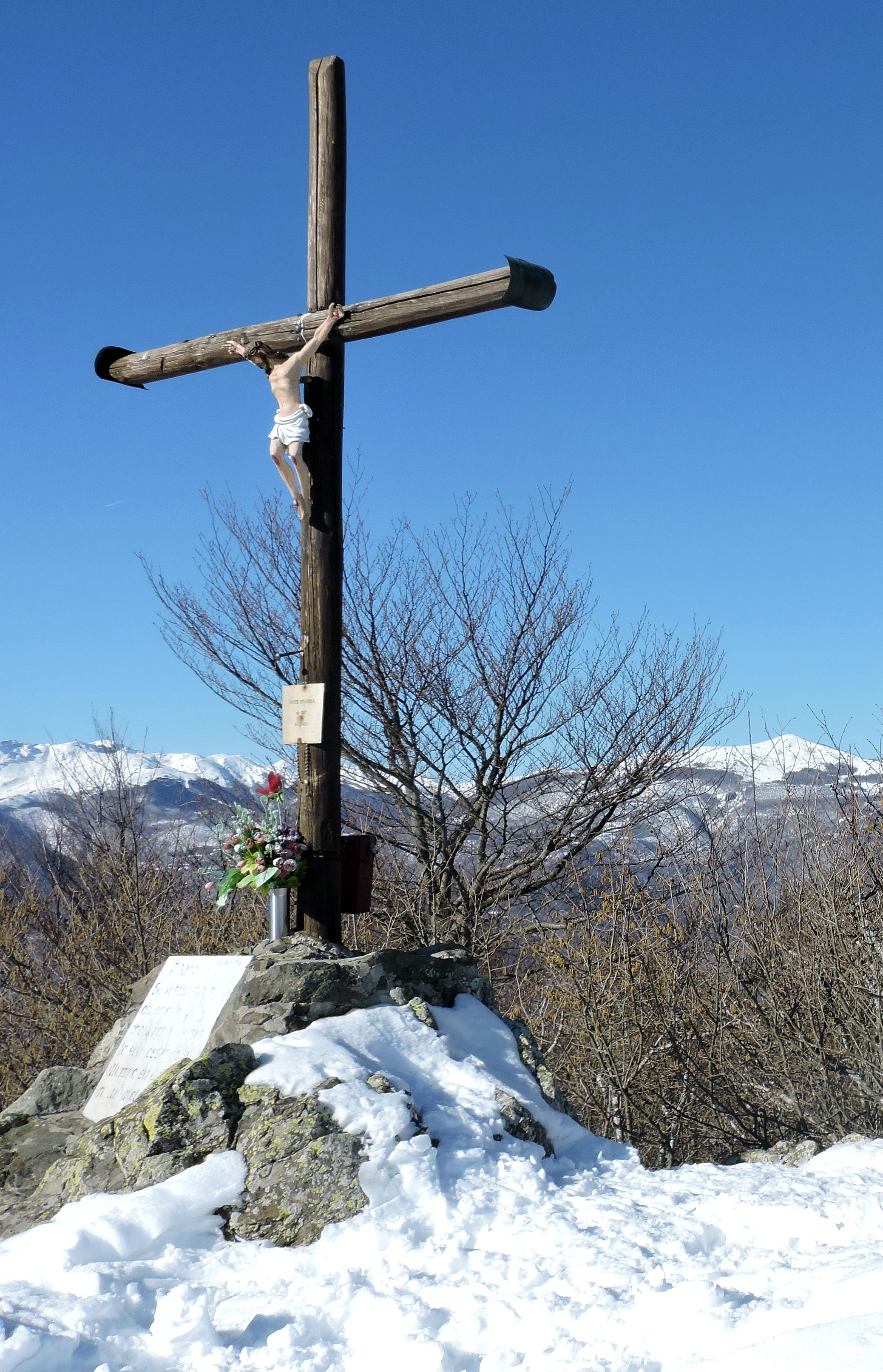 Monte Spinarda (Prealpi Liguri, Italy): summit cross (Bric Mindino in the background on the right)